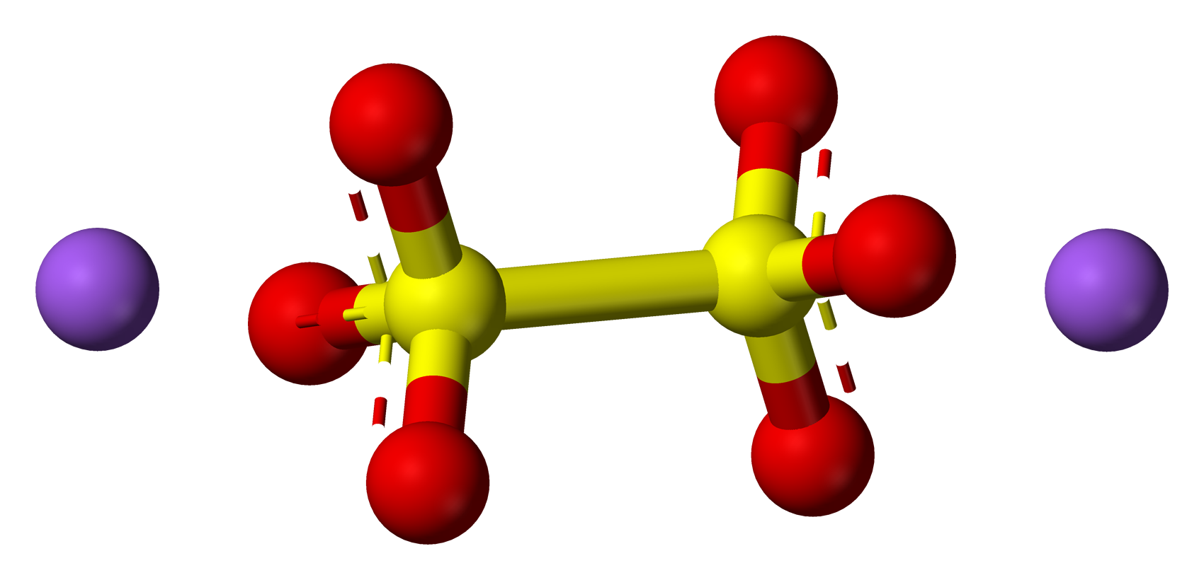 Ball-and-stick model of sodium dithionate (also known as sodium hyposulfate, and sodium metabisulfate), showing two sodium cations and one dithionate anion. Not to be confused with sodium dithionite.